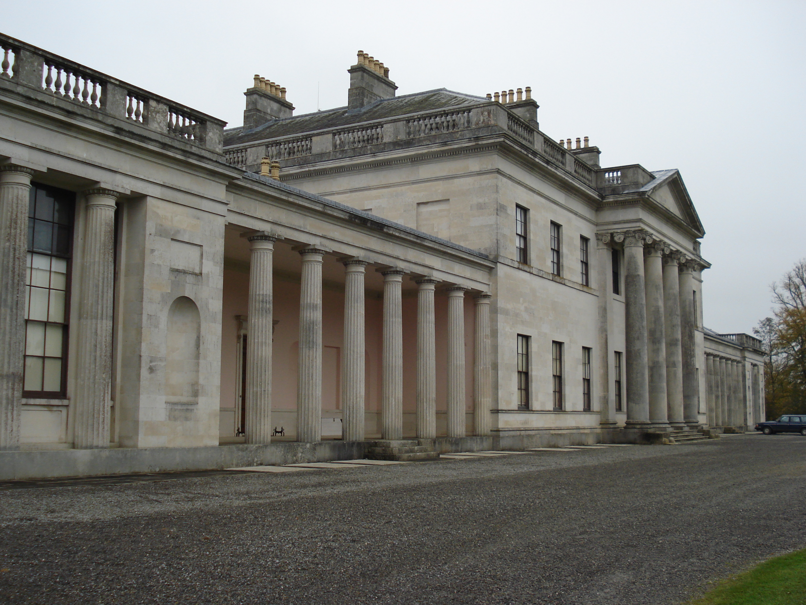 Castle Coole, Enniskillen. Front of the building.